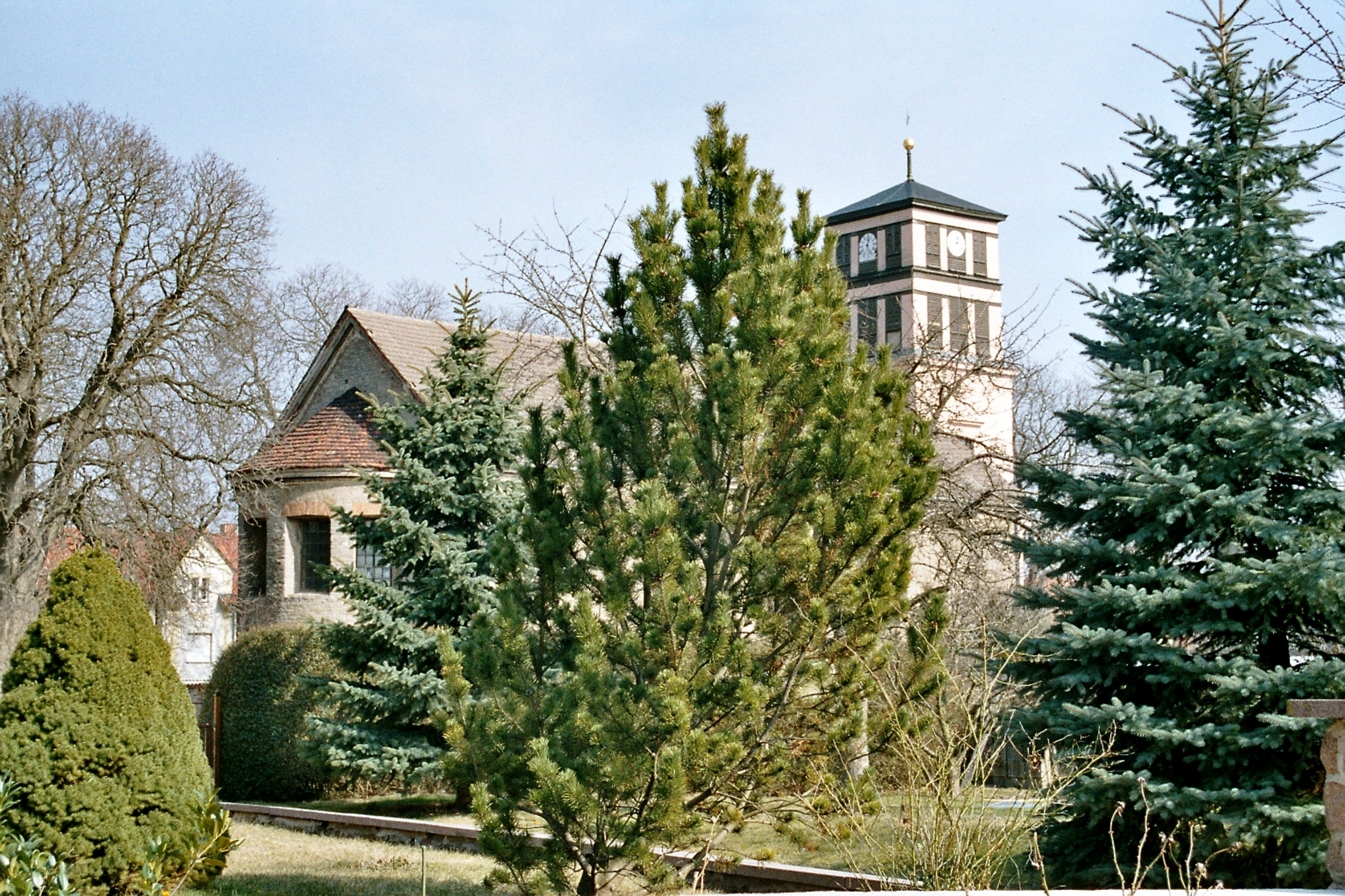 The church St.Bartholomew